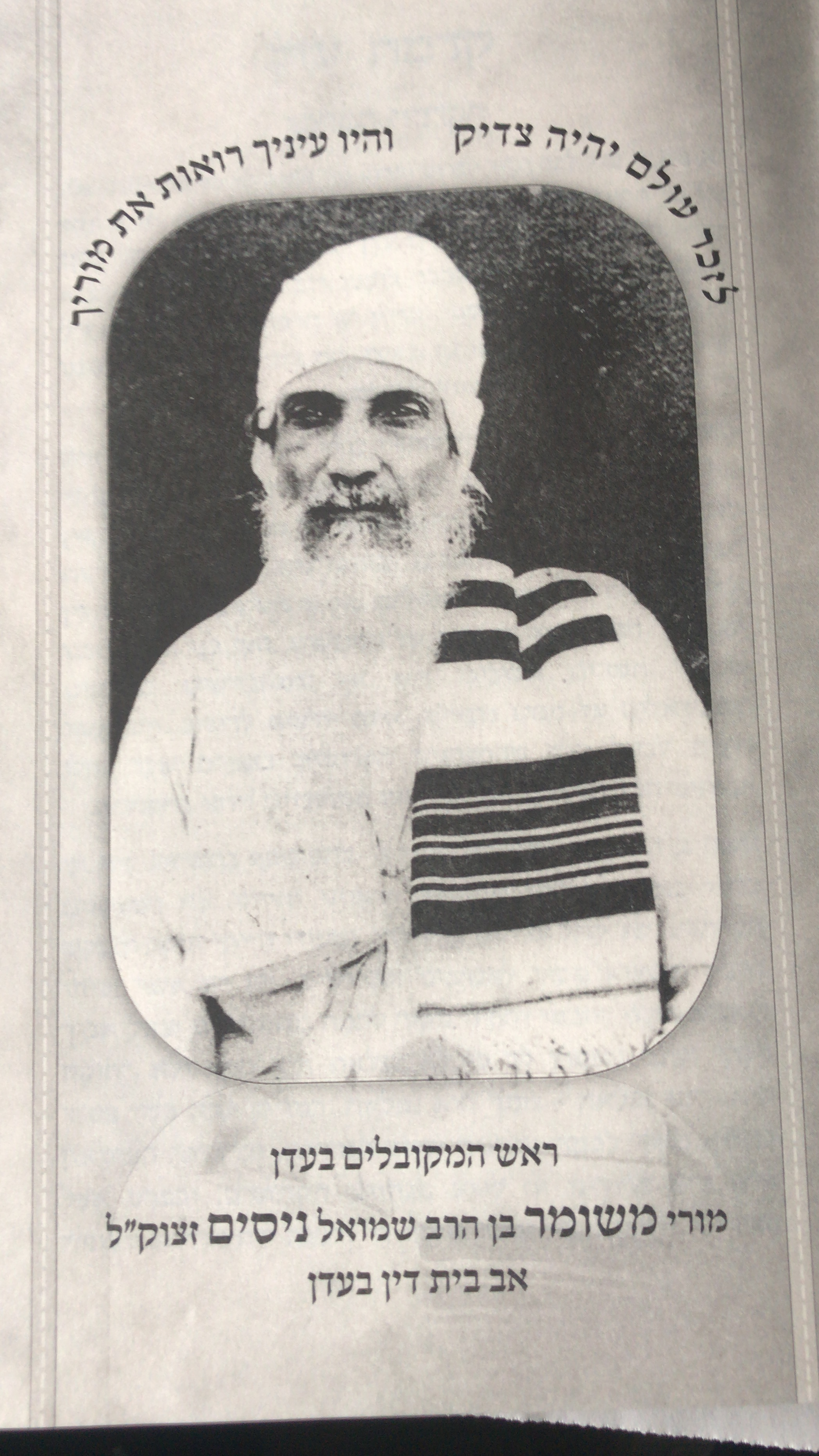 מורי משומר, עדן, יהודי תימן, הרב משומר שמואל ניסים